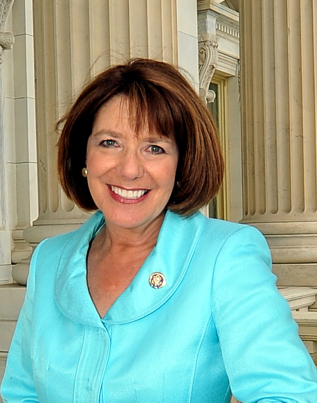 Congresswoman Susan Davis